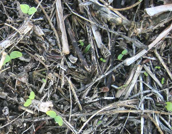 Annuals emerge as the dry season comes to the end in Chiapas, Mexico.